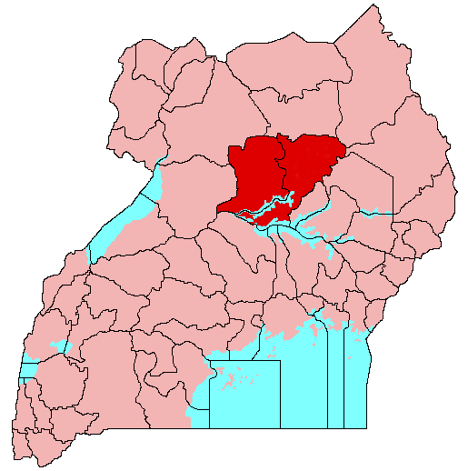 Ugandan subregion of Lango and its districts Created by editing picture